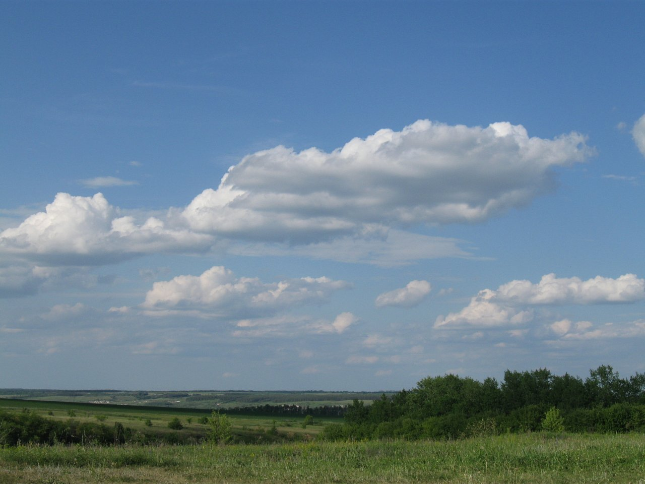 вид 19. 1 Участок. Вид с Бакурской горы. Село Новомеловатка